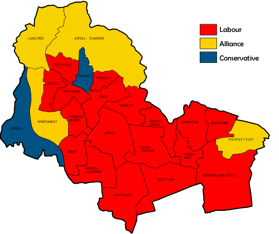 Wigan ward map with political colouring.